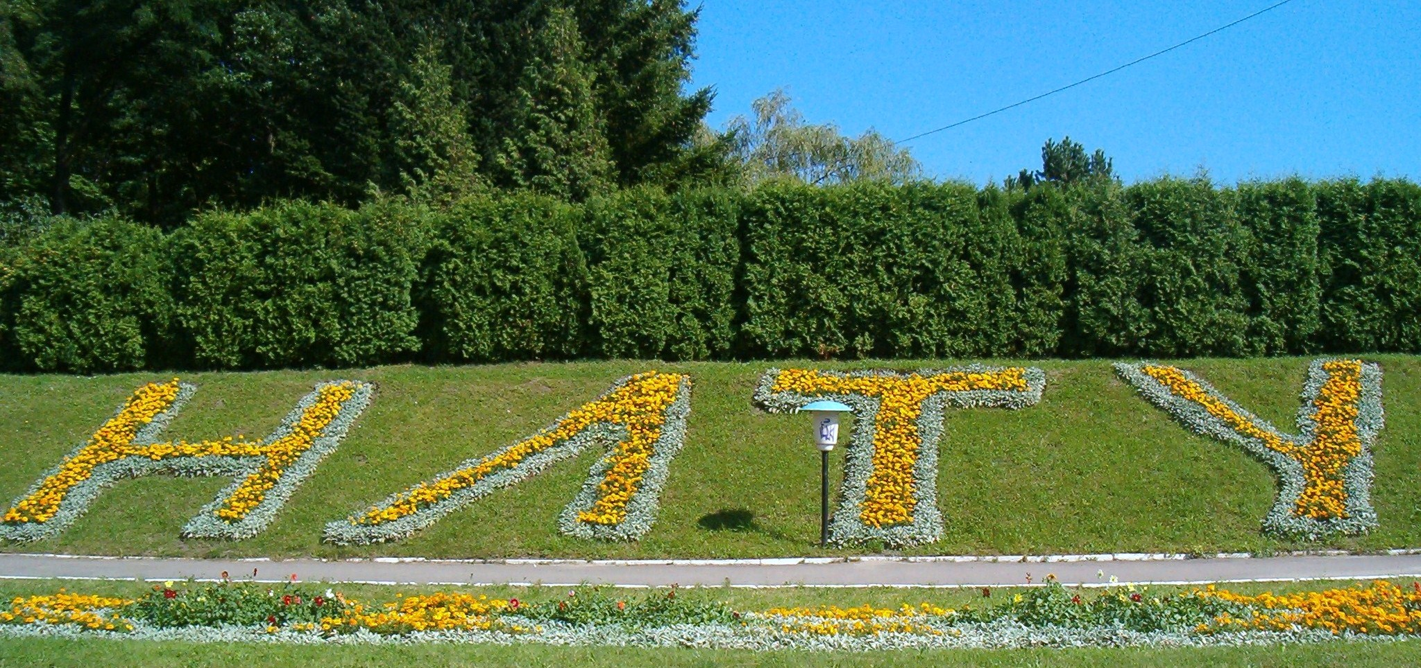 National Forestry University of Ukraine